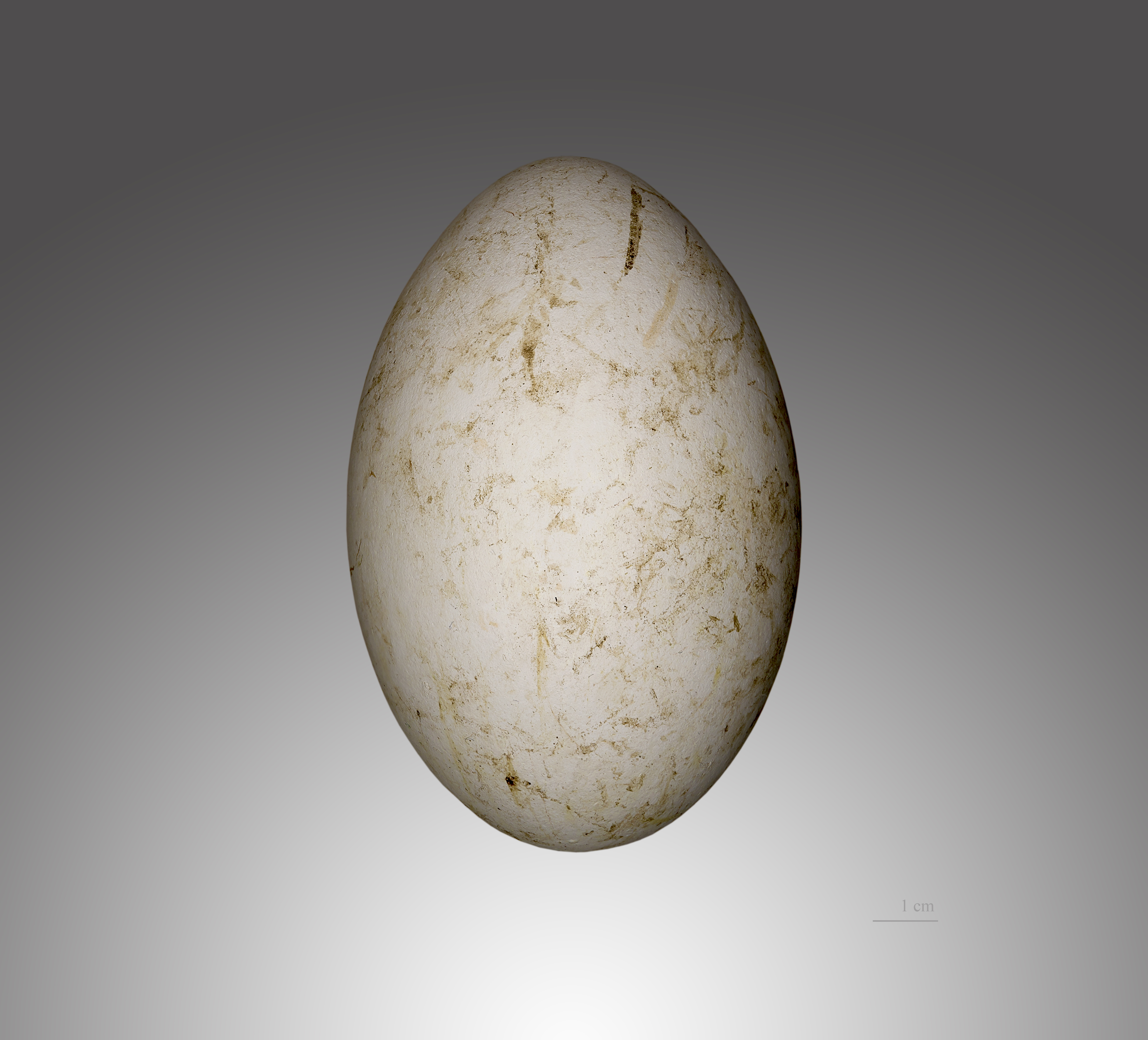 Egg of Cape Vulture. Collection of Jacques Perrin de Brichambaut. Locality: Jardin des Plantes Paris France.